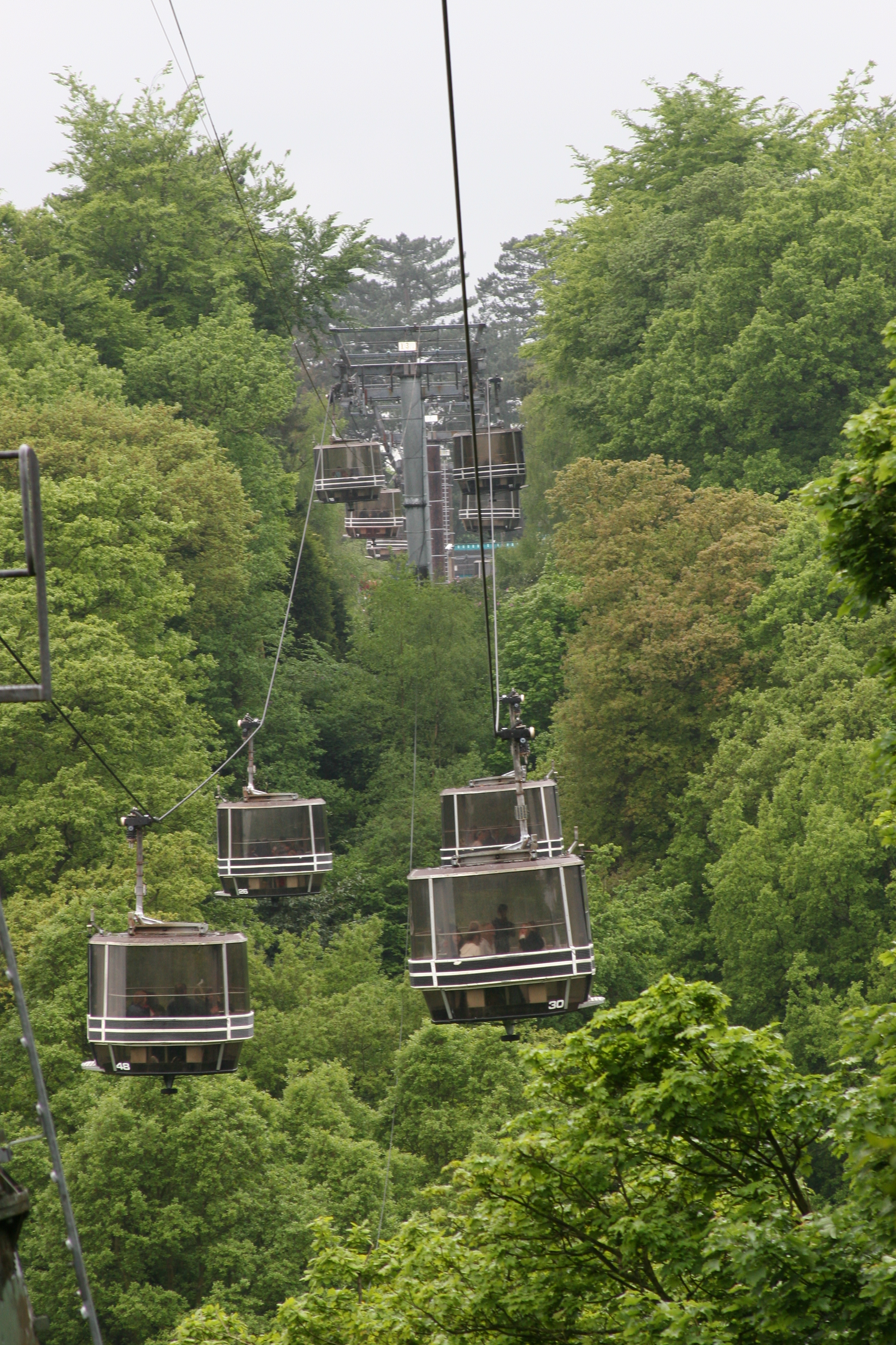 Alton Towers 'Sky Ride'